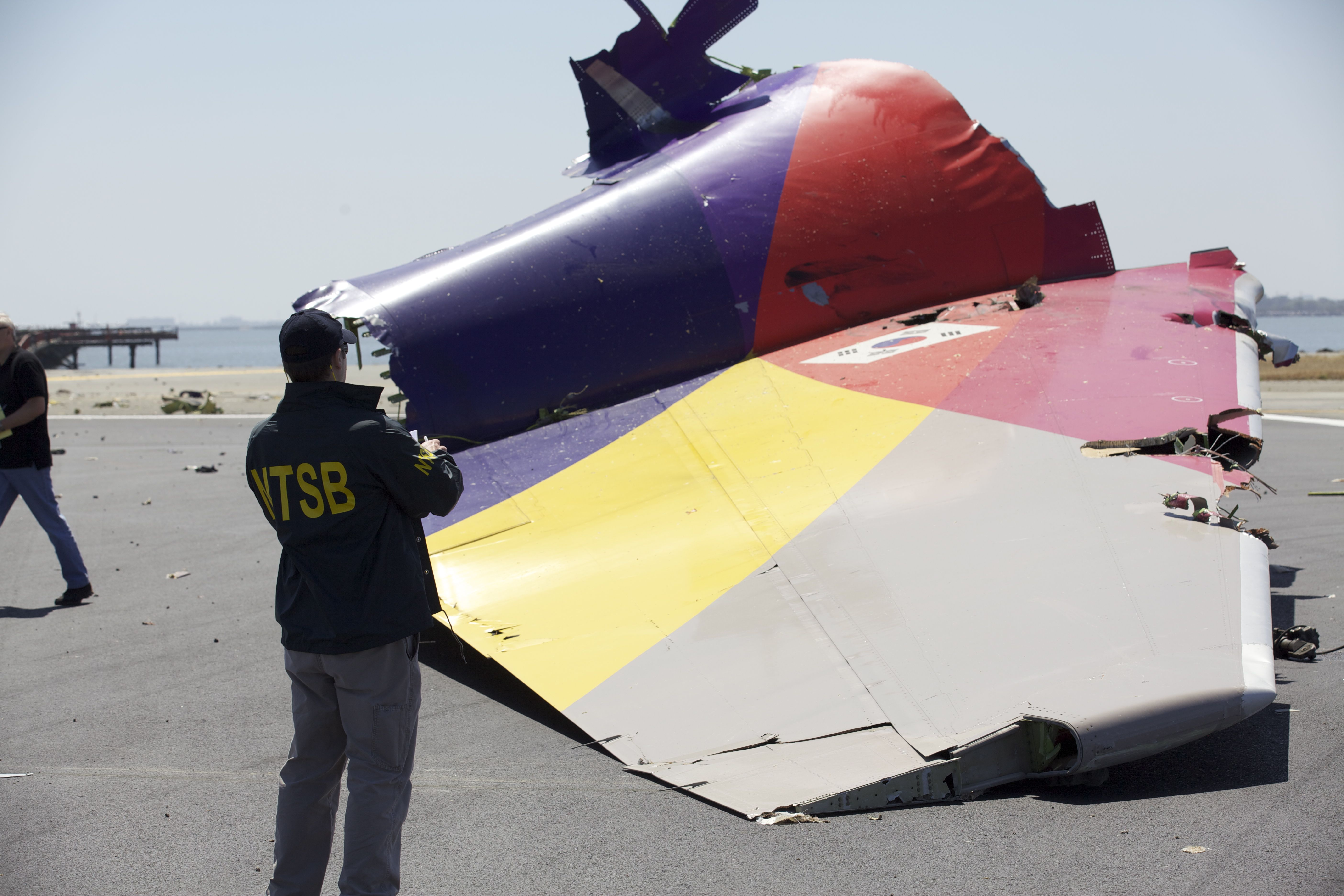 NTSB investigators looking at portion of Asiana Airlines Flight 214's tail wreckage.